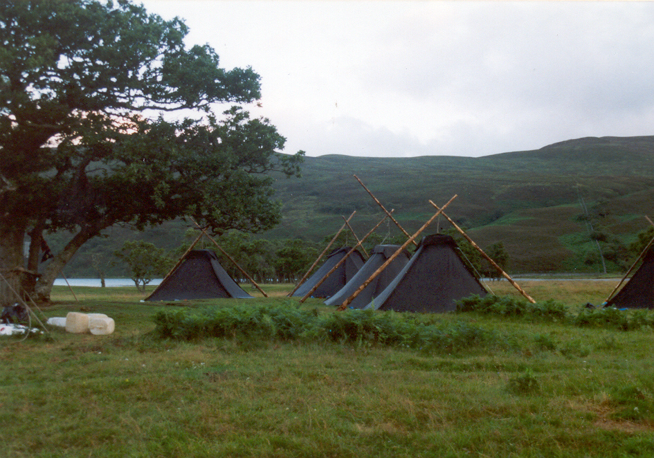 Kohte, self photograph. A Kohte is a German Scout tent based on the shape and function of the Saami (Laplander) tipi-like reindeer skin tent.